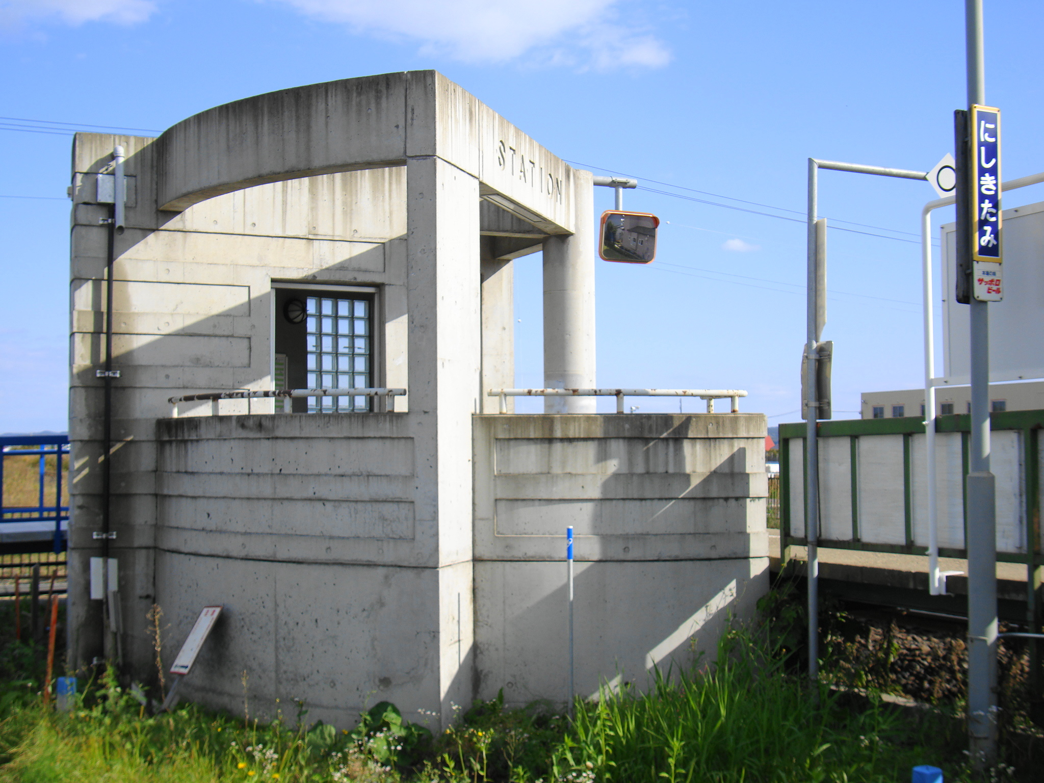 Nishi-Kitami Station